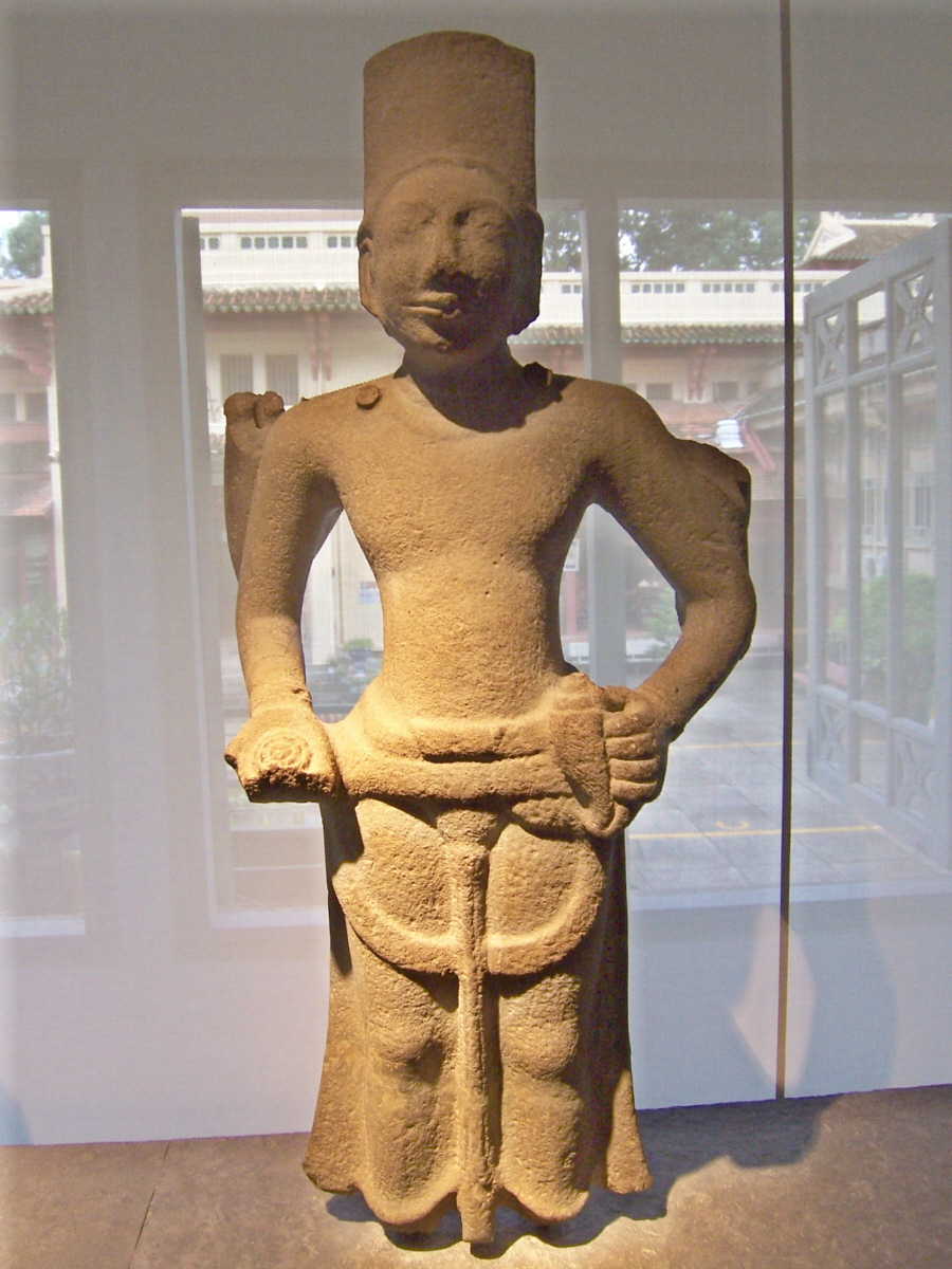 This photograph is of a stone statue of Visnu found at Óc Eo in An Giang Province, Vietnam. It is dated to the 6th or 7th century A.D. It is housed at the Museum of Vietnamese History in Ho Chi Minh City.